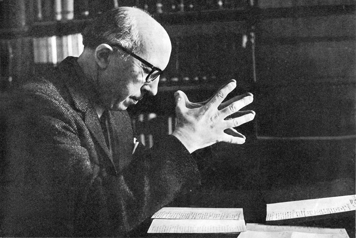 Professor Stefan Świeżawski, Polish philosopher